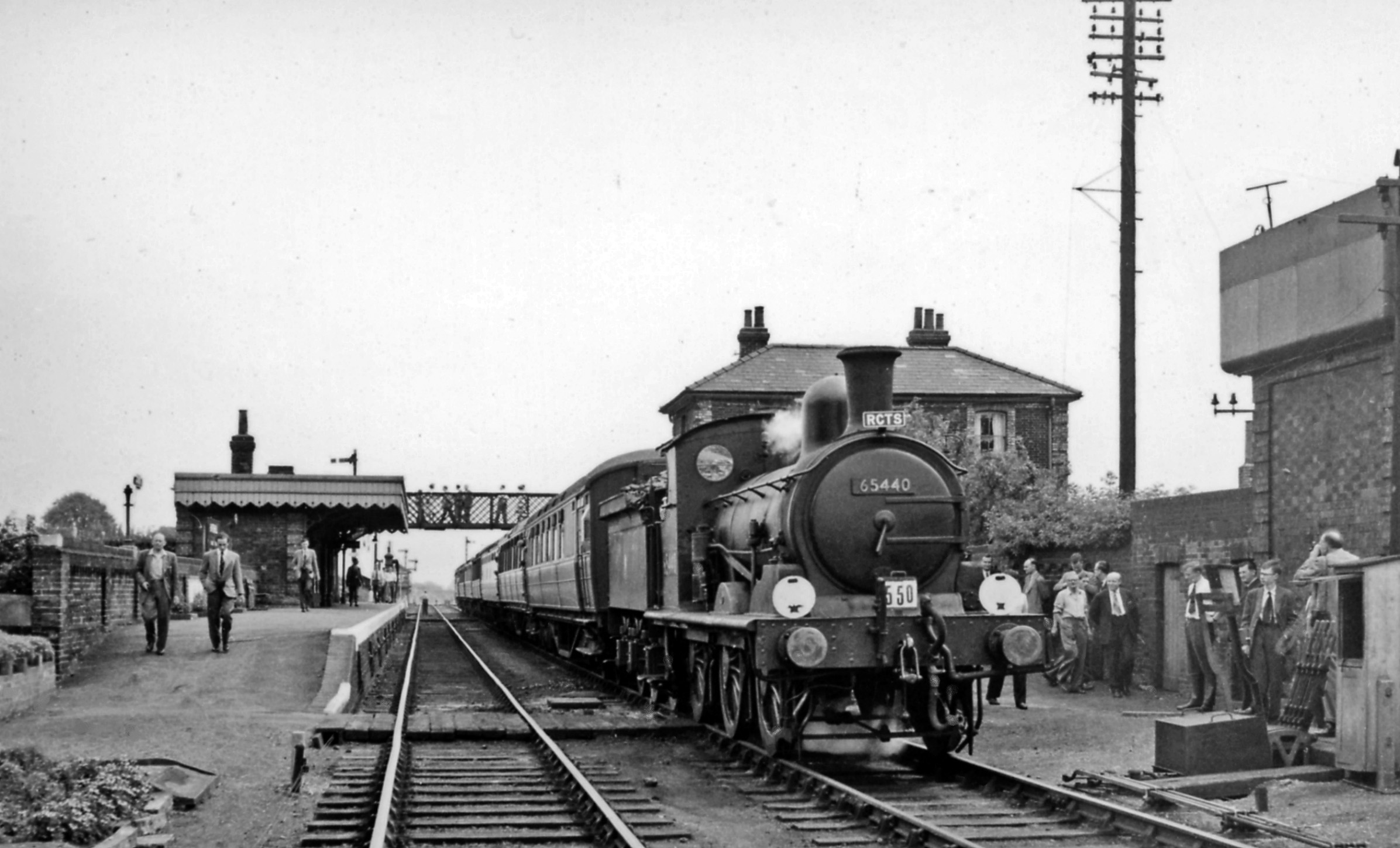 Haverhill Station, with Railway Correspondence & Travel Society Rail Tour. View SE, towards Chappel and Marks Tey; ex-Great Eastern Marks Tey - Cambridge line and ex-Colne Valley & Halstead loop Haverhill - Halstead - Chappel & Wakes Colne - which joins on the right beyond the station. This 'Northern & Eastern' Tour started at Liverpool Street at 9.50 with a J19 0-6-0, ran via Stratford and Temple Mills onto the Lea Valley main line to Bishop's Stortford, then via Braintree (goods-only line) to Witham and main line to Marks Tey. We were reversed there and the J15 0-6-0 No. 65440 in the photograph took us via Chappel over the CV&H line to Haverhill and on to Cambridge. We reversed again there and with BR 2-6-4T took the ex-LNW line to Bedford St Johns and round to Midland Road: then a BR 4MT 4-6-0 took us up the main line to St Pancras - not without our train being taken (by a Midland 3F 0-6-0) for a trip down the goods-only branch from Harpenden to Heath Park Halt (Hemel Hempstead) and back. It was 20.15 when we got back to London - exhausted.